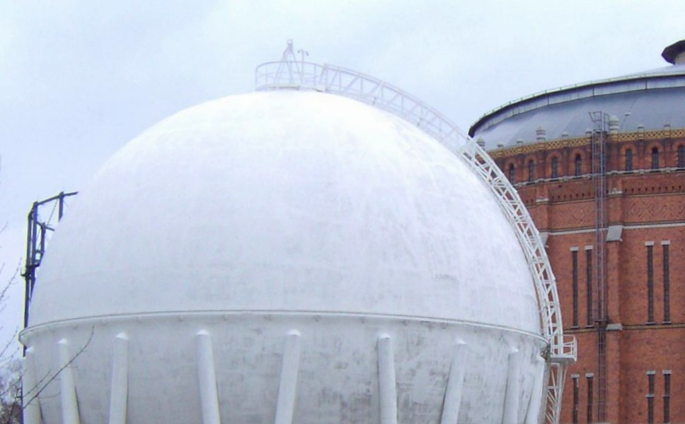 A modern gas holder beside Ferdinand Boberg's old gas holder